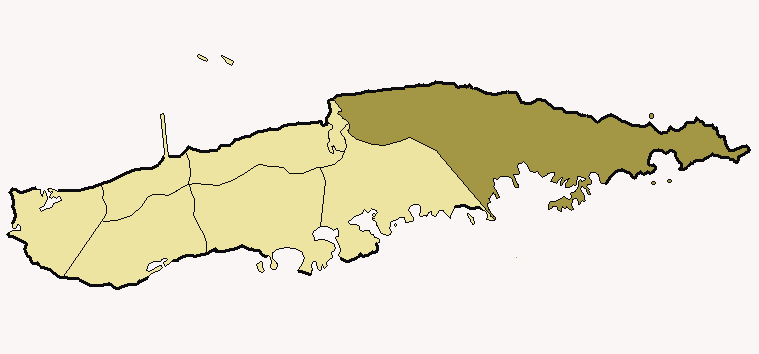 Map of Vieques (Puerto Rico) highlighting Puerto Diablo ward.